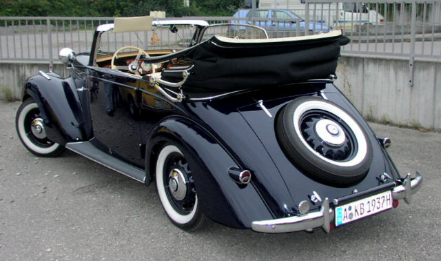 Mercedes-Benz 170 V (1937) with Sodomka body (1948)